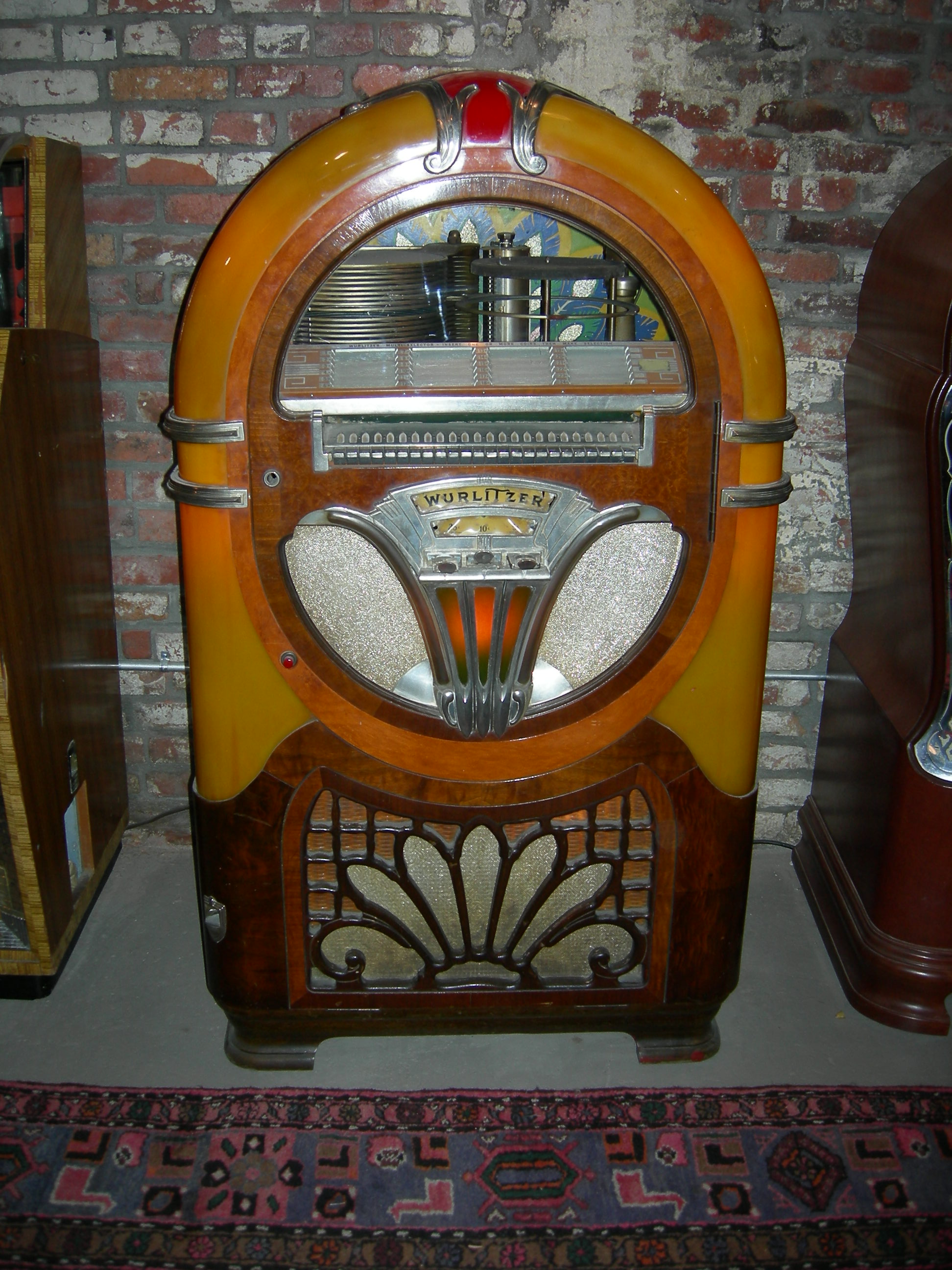 A mid-20th-century 24-disc Wurlitzer jukebox. Photographed at "The Stables" behind Full Throttle Bottles, Georgetown, Seattle, Washington.